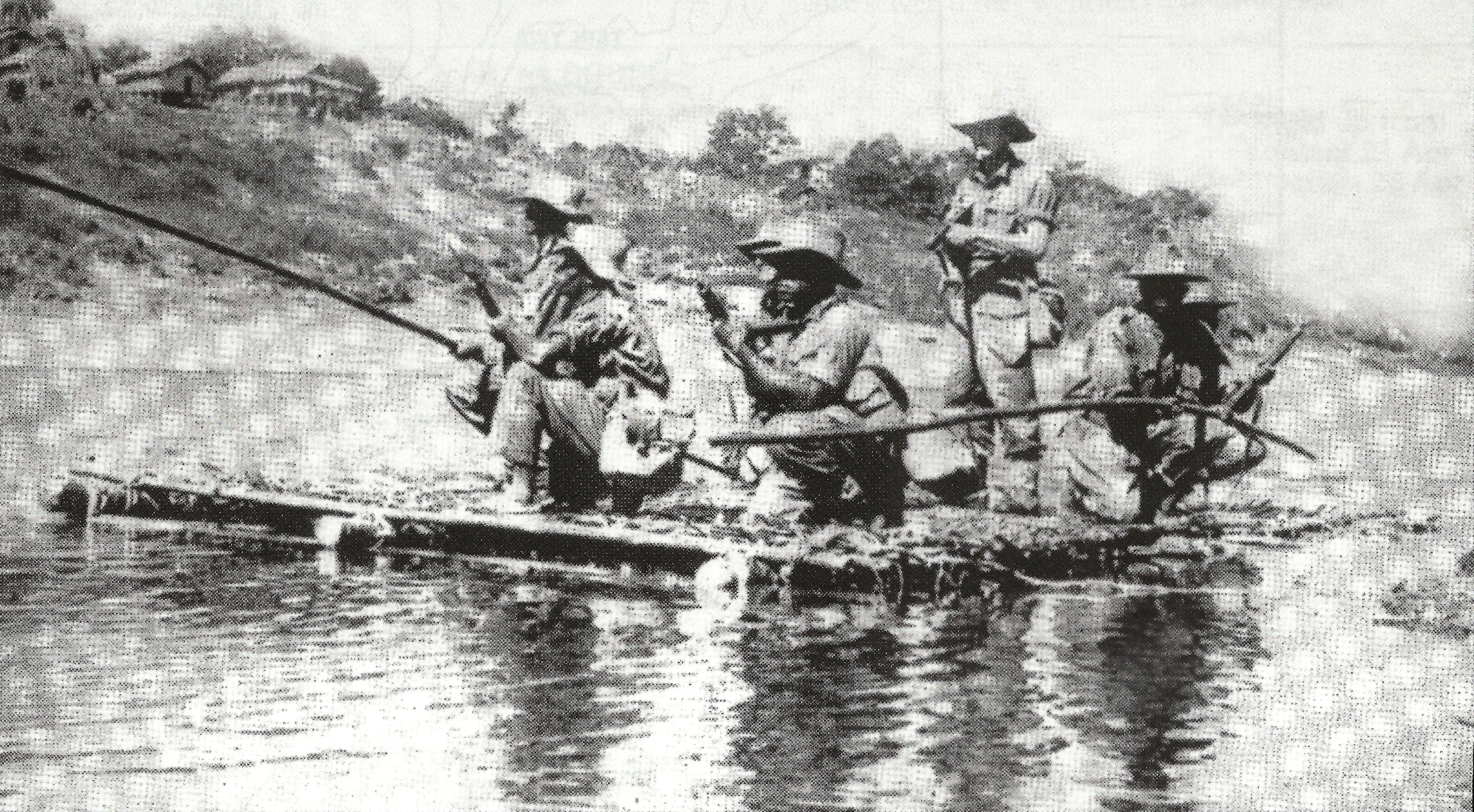 A patrol of the 1st Battalion, the Rhodesian African Rifles, in Burma, 1945.